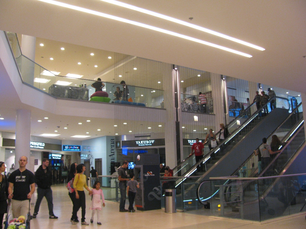 Aesthetics at its best